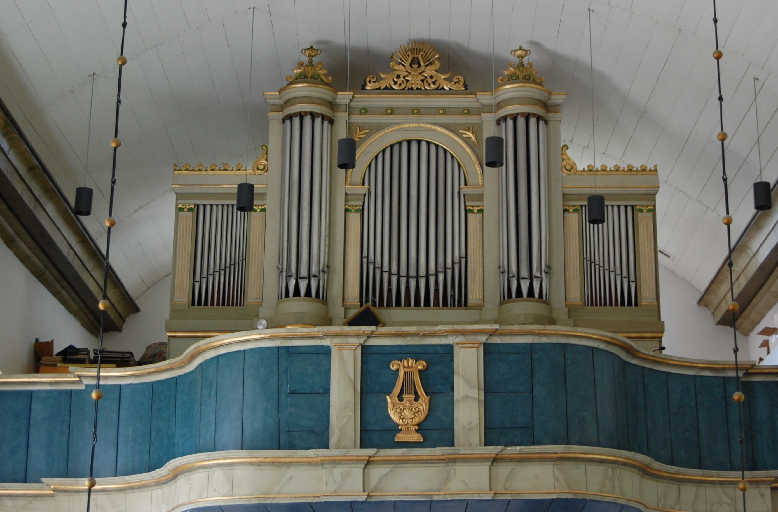 Pipe organ in Arby Church, southwest of Kalmar, Sweden